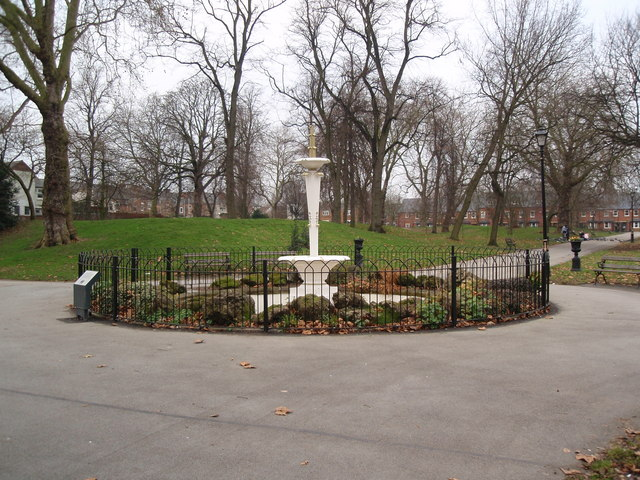 The fountain in the Derby Arboretum This was designed by Andrew Handyside in 1845.